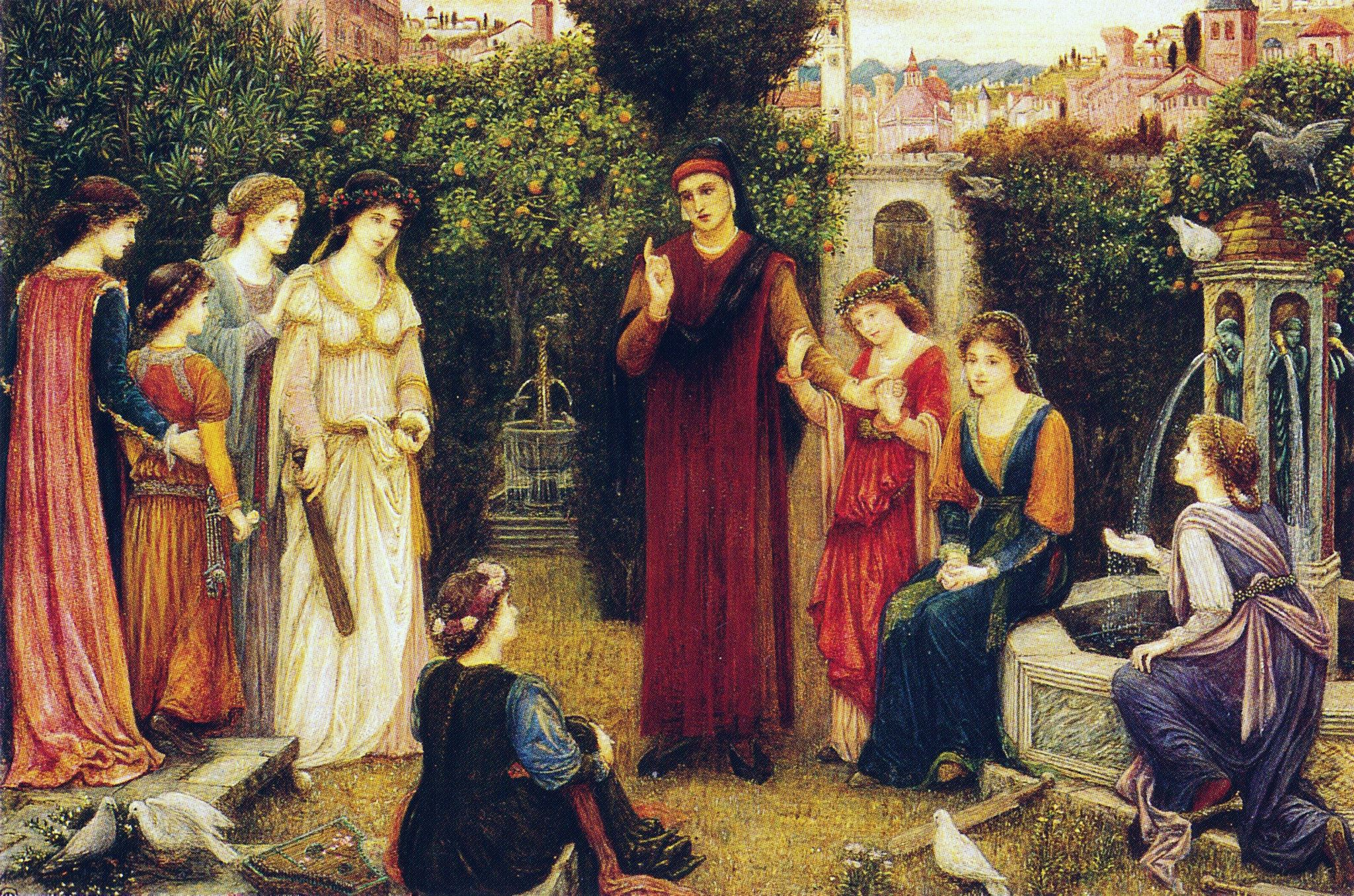 “ Marie Spartali Stillman, Dante at Verona, 1888. This was accompanied when first exhibited, by a quotation from Rossetti's poem of the same name: [...] He comes upon The women at their palm-playing. The conduits round the gardens sing And meet in scoops of milk-white stone, Where wearied damsels rest and hold Their hands in the wet spurt of gold. One of whom, knowing well that he, By some found stern, was mild with them, Would run and pluck his garment's hem, Saying, 'Messer Dante, pardon me,' Praying that they might hear the song Which first of all he made, when young.The song Dante made "when young" is the Vita Nuova, which induces a pensive mood in both poet and listeners. The scene is an imagined re-creation of a public garden in medieval Verona, to which Dante was exiled. ” — , site